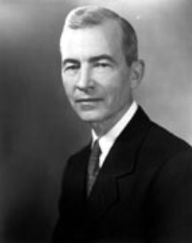 Official Photo of Donald A. Quarles, 4th Secretary of the Air Force